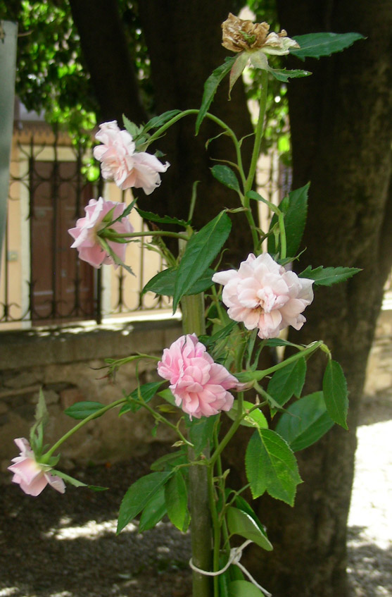 Rose, cultivar 'Bloomfield Abundance' Thomas USA 1920 (Rosa Floribunda Group)